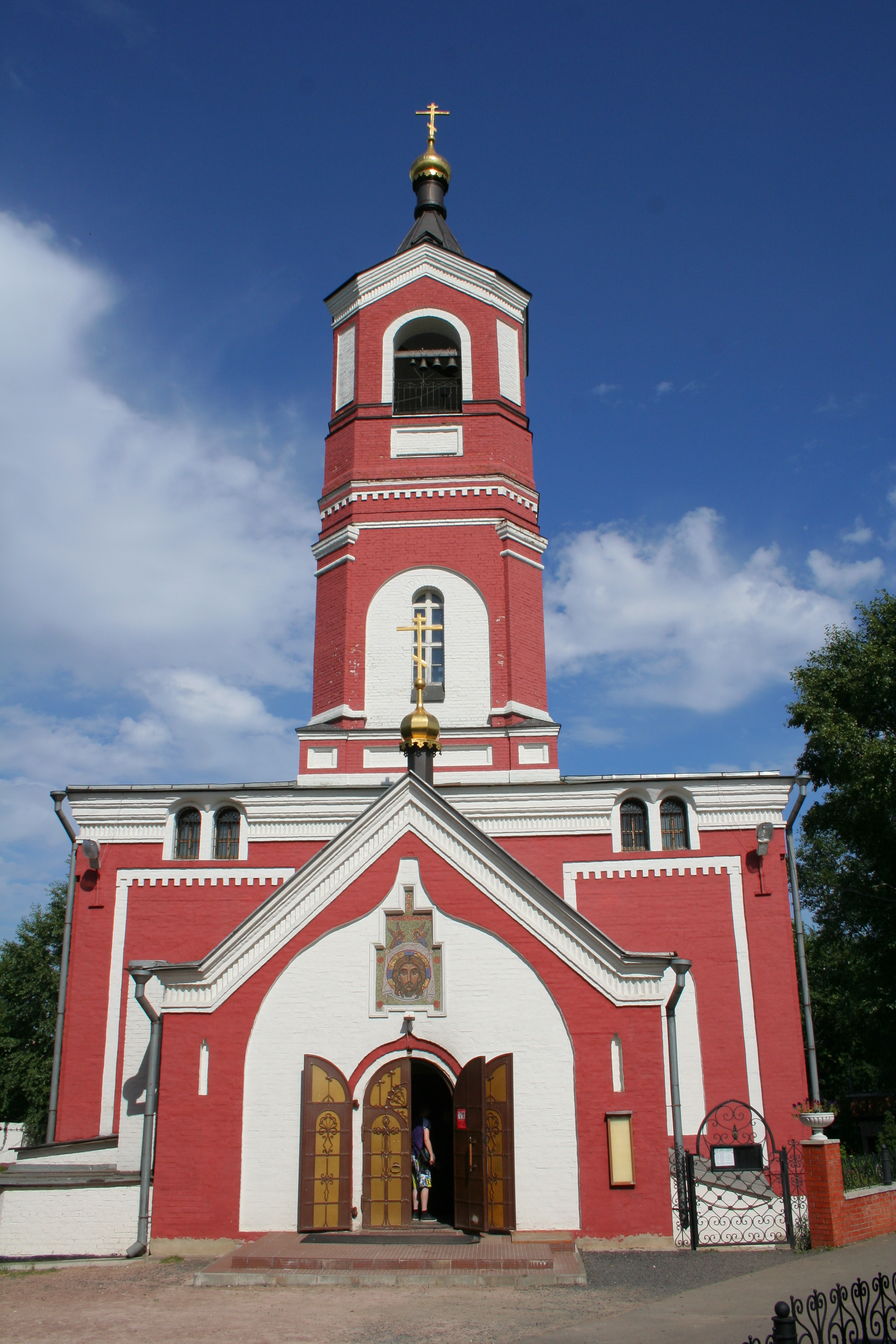 Church of Holy Trinity in Borisovo, Moscow.